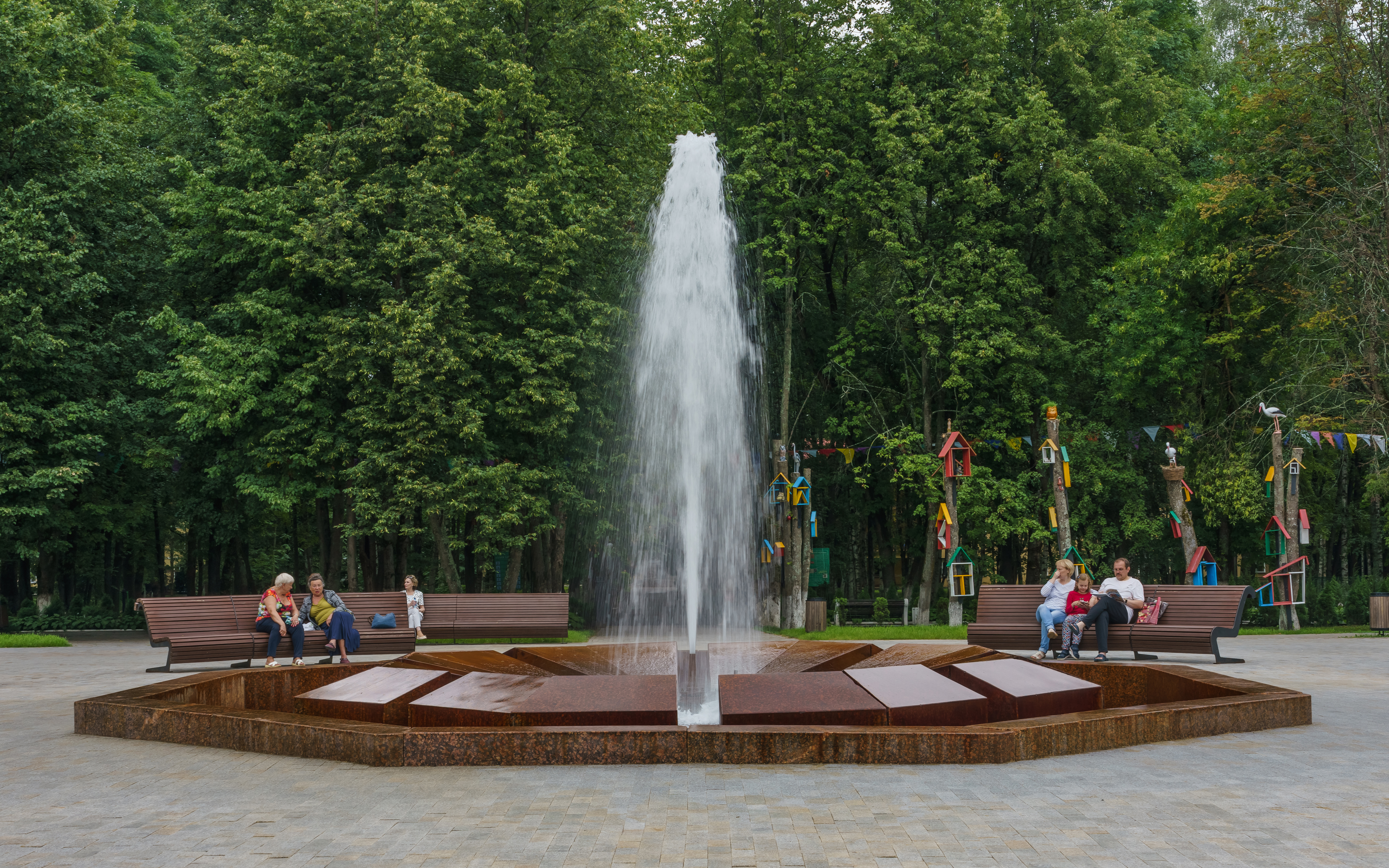 Muravievsky Fountain of the Resort in Staraya Russa, Novgorod Oblast, Russia